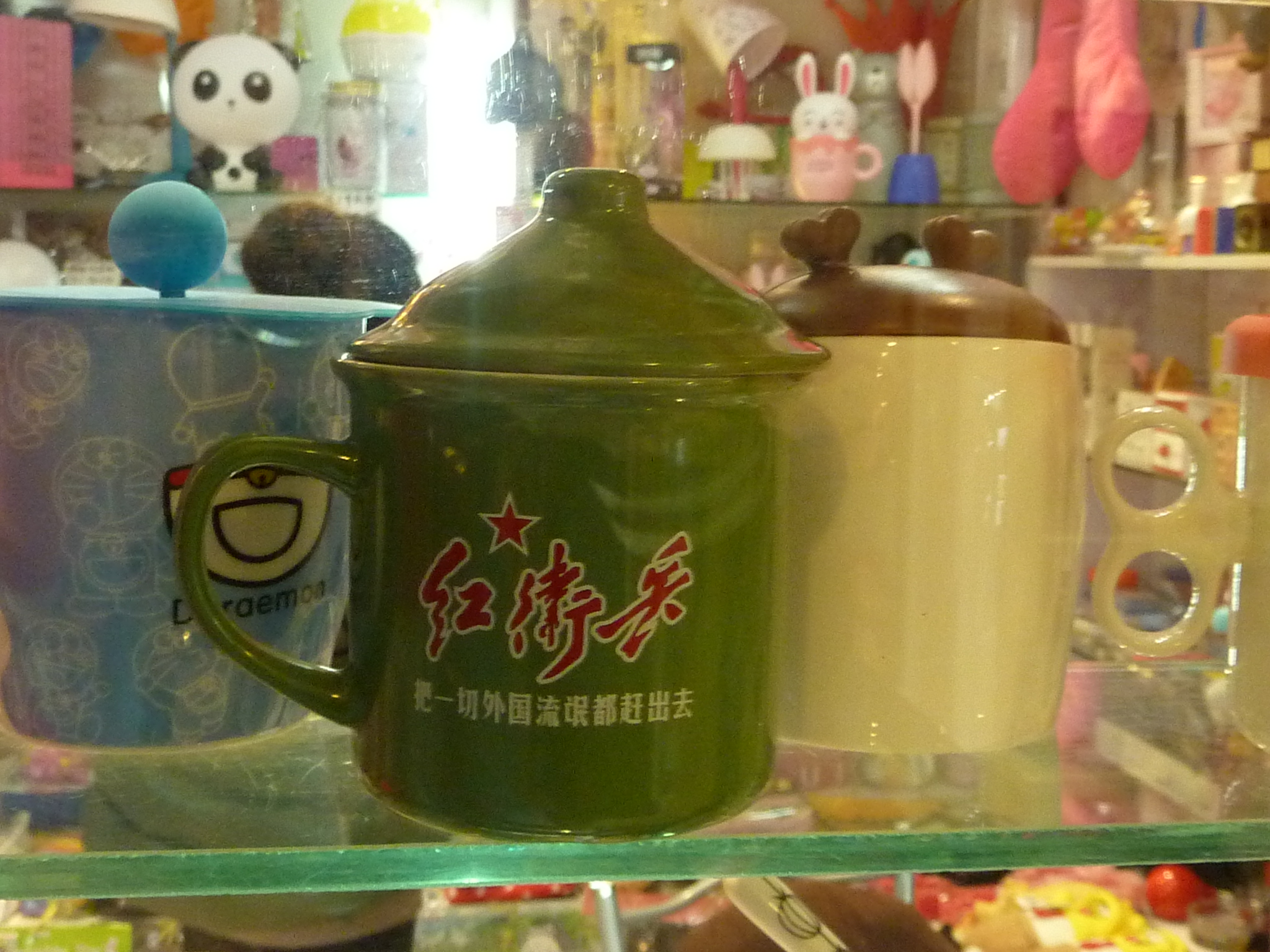 A souvenir tea cup, seen in a Yangzhou mall, with a Hong wei bing ("Red guard") inscription, and a slogan (把一切外国流氓都赶出去, "Drive out all foreign rascals)").